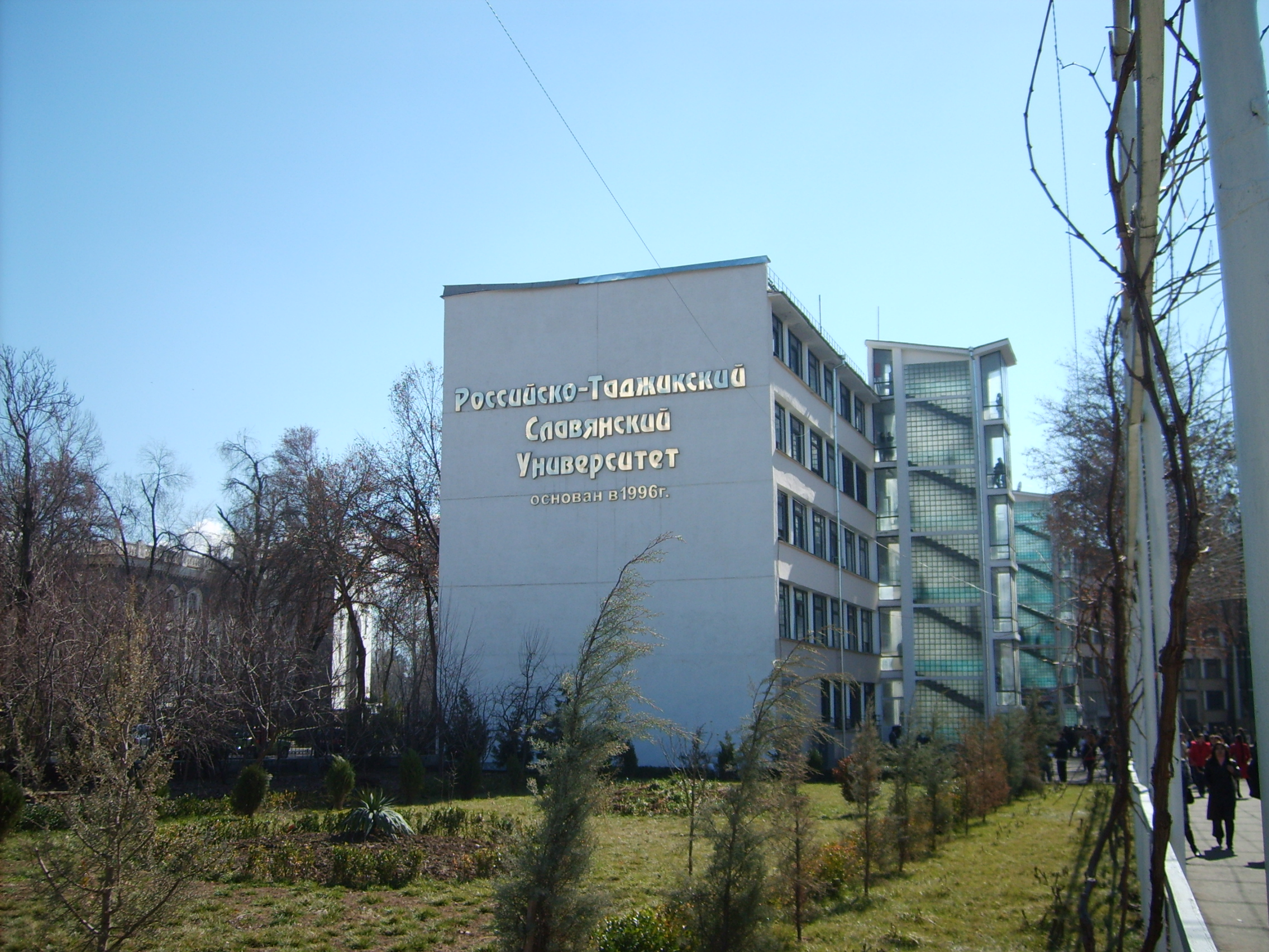 Building Russian-Tajik (Slavonic) university, 1996 year